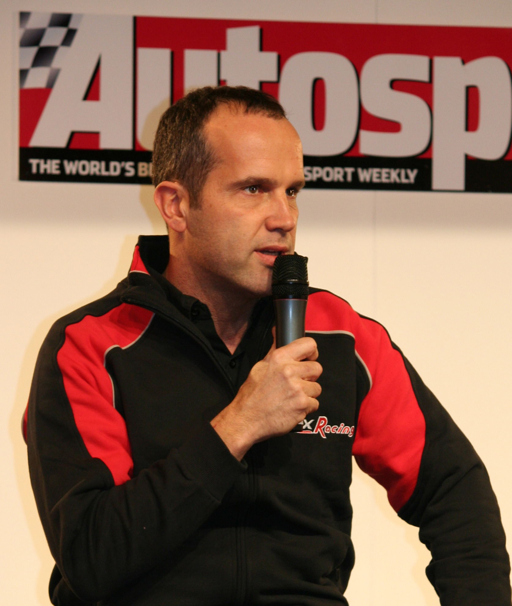 Fabrizio Giovanardi at Autosport International 2009